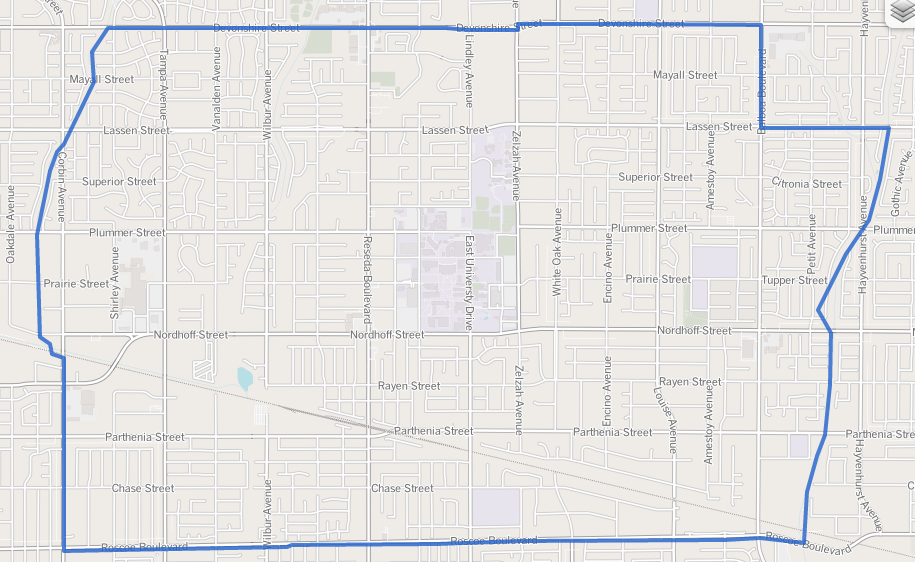 Map of Northridge, California, as delineated by the Los Angeles Times Other information Boundary map as drawn by the Los Angeles Times on a CC-by-SA background. Note at bottom right of map on the L.A. Times website noted above says "CC-by-SA" (which gives permission to use the map). There is a link there to which explains the meaning thereof. The base map is credited to The Times spells all this out at